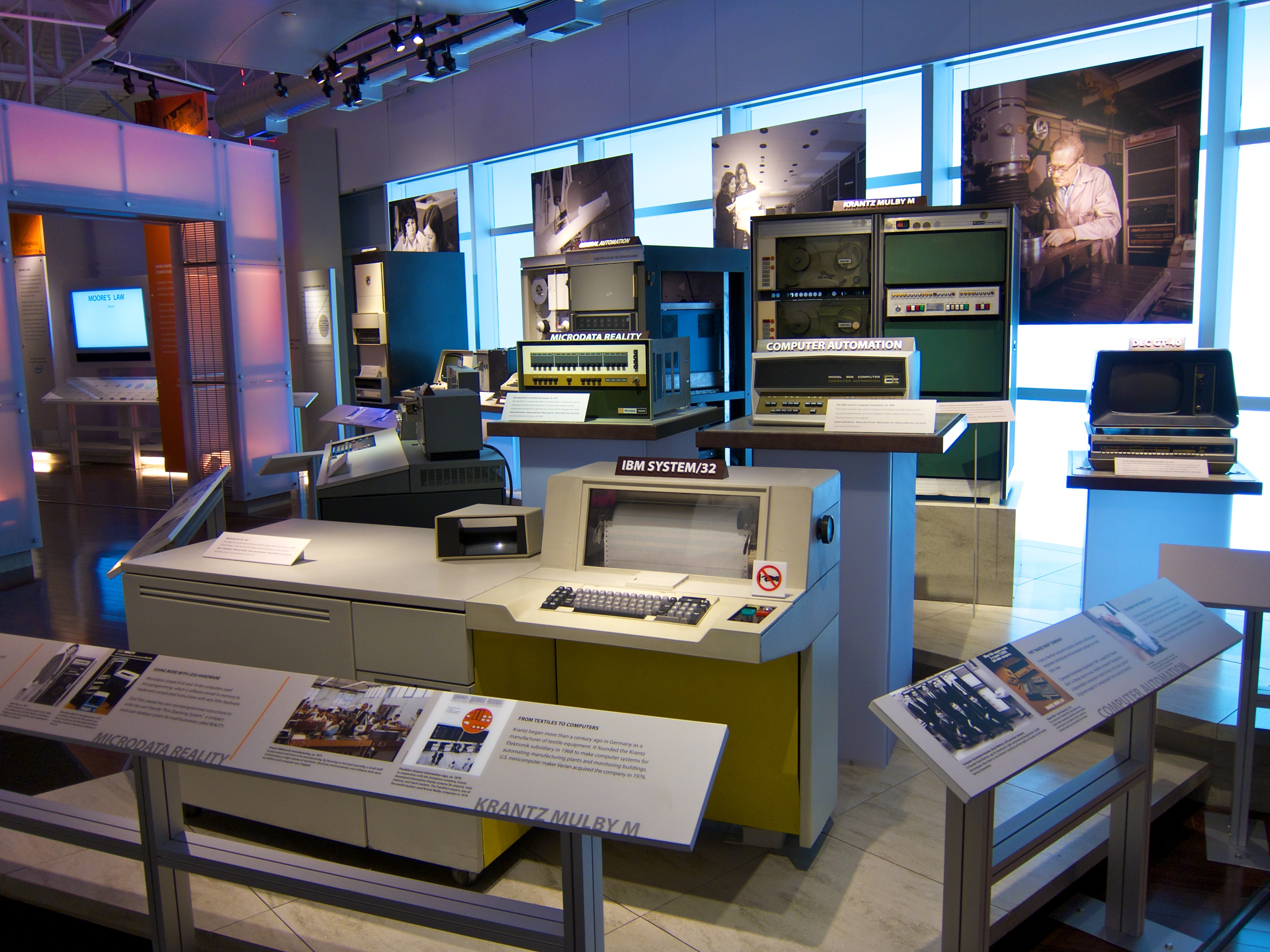 Various mini-computers at CHM